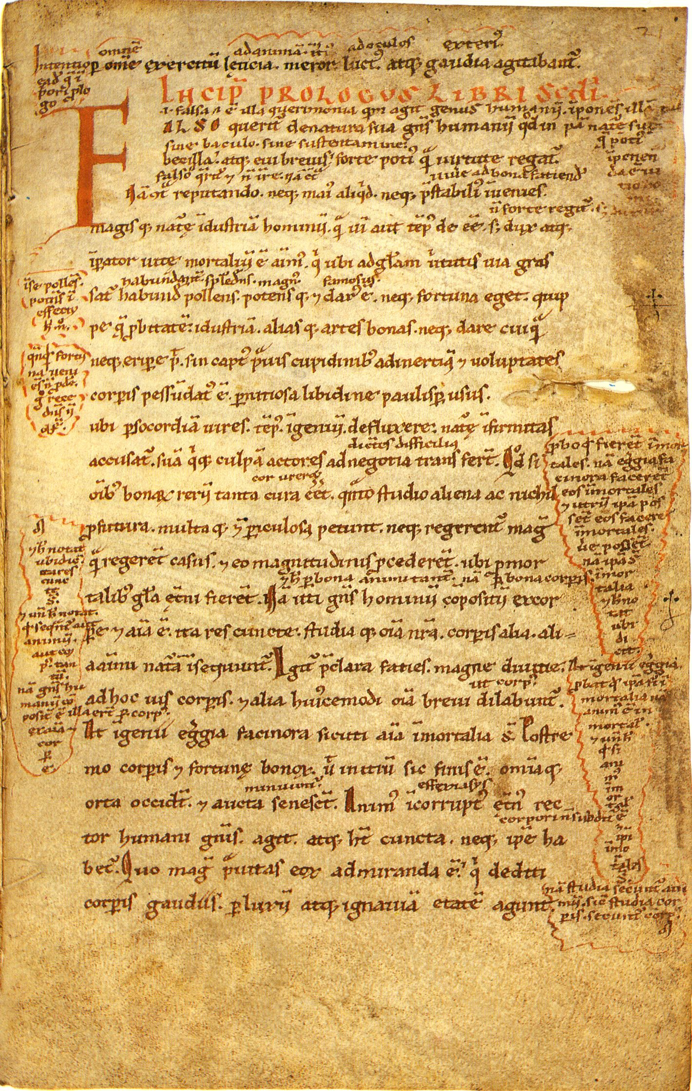 The beginning of Sallust’s Bellum Iugurthinum with glosses, in ms. Biblioteca Apostolica Vaticana, Vaticanus Palatinus lat. 883, fol. 21r.